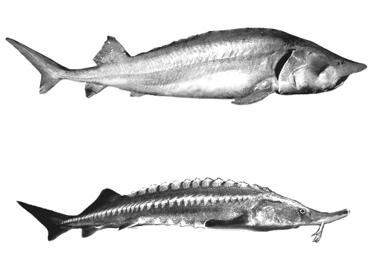 During ontogeny, Huso huso shows evident morphologic changes